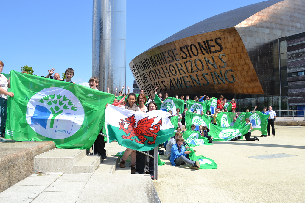 Pupils taking part in an Eco-Schools conference, June 2013